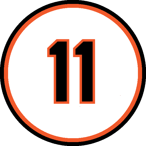 SF Giants retired number placard as shown inside stadium